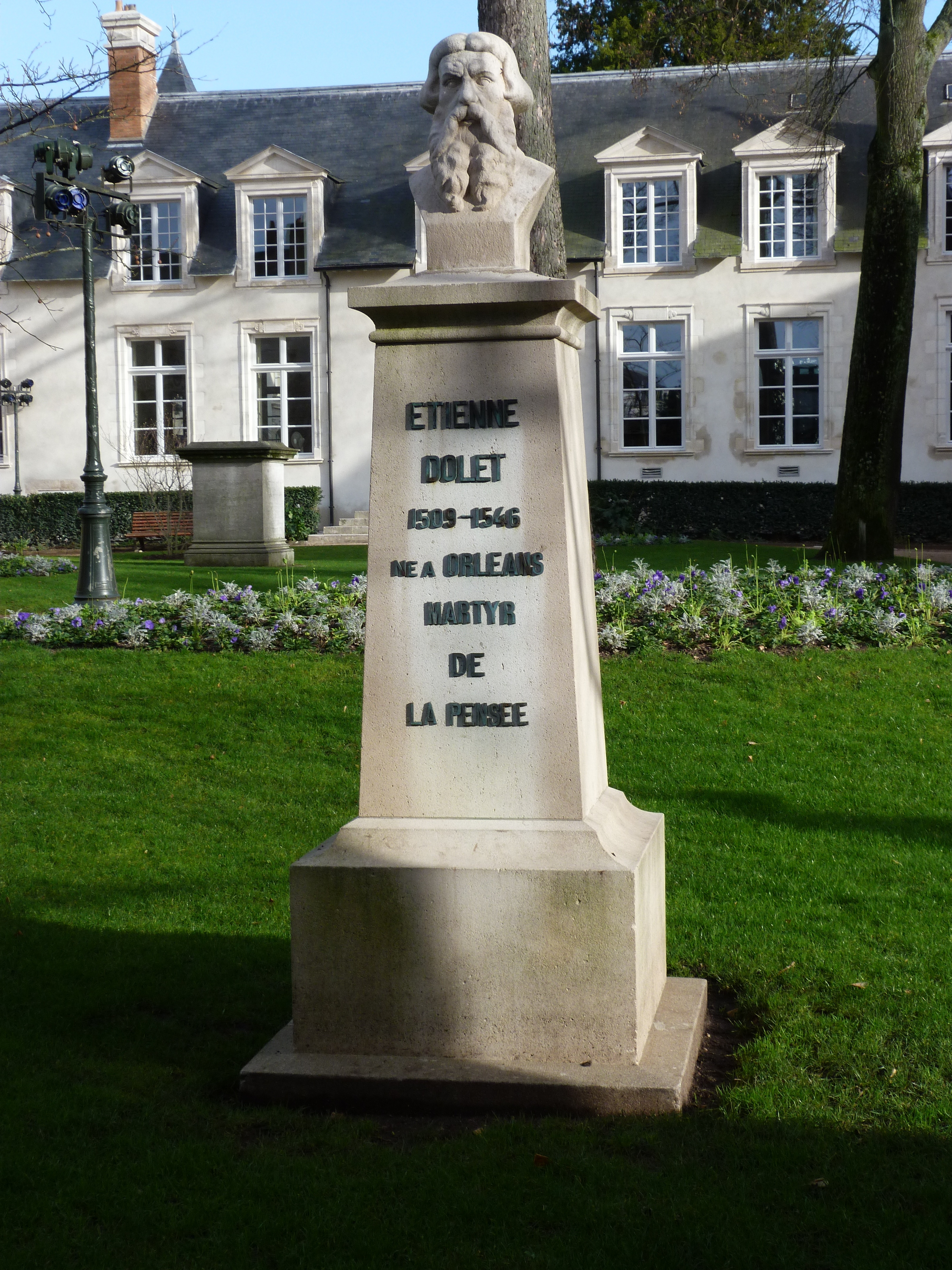 Sculpture, in Orléans.